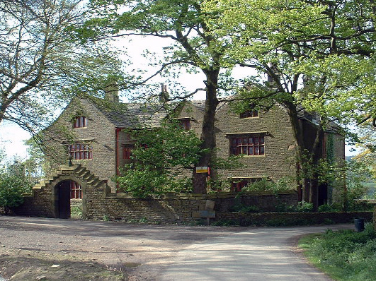 Shuttleworth Hall, near Padiham. The Shuttleworths were [are?] a prominent family in East Lancashire, though the family 'seat' was not here, but at Gawthorpe Hall, in Padiham. The building dates from the 17th century and is still a working farm.